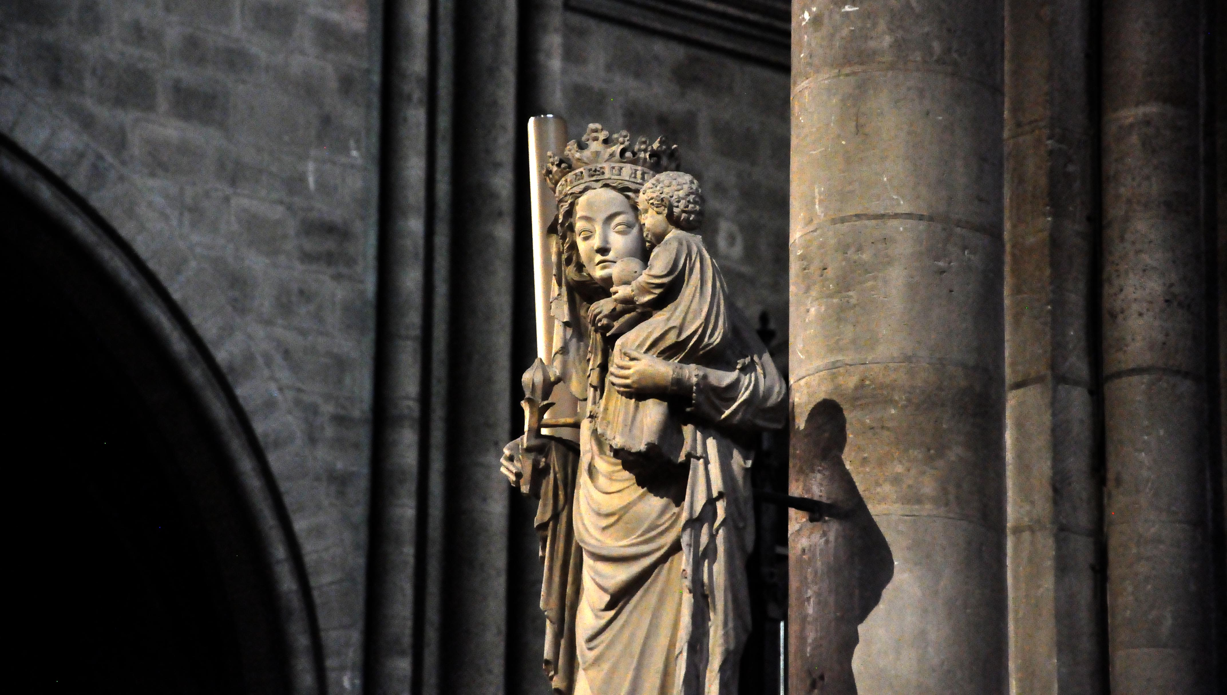 Notre Dame 208